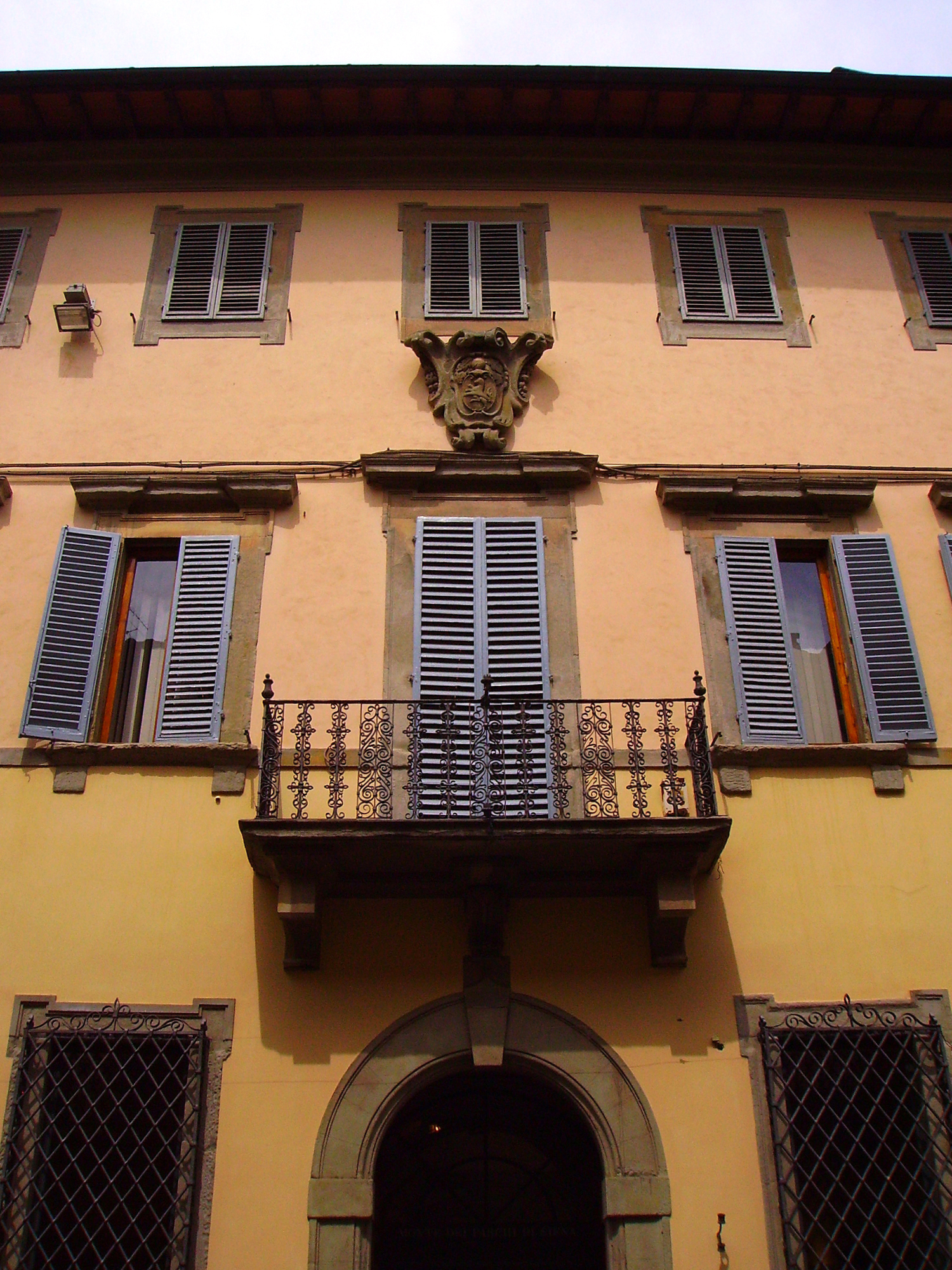 The façade of Palazzo Mari in the main street of Montevarchi